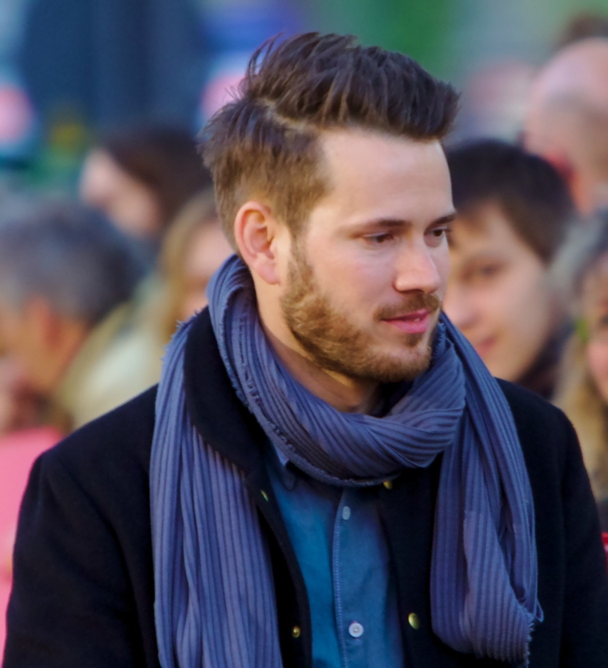 Filmpremiere "Zulu" in Hamburg, 5. Mai 2014